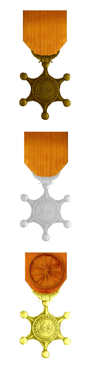 Order of Merit of Indochina 1900 - 1945